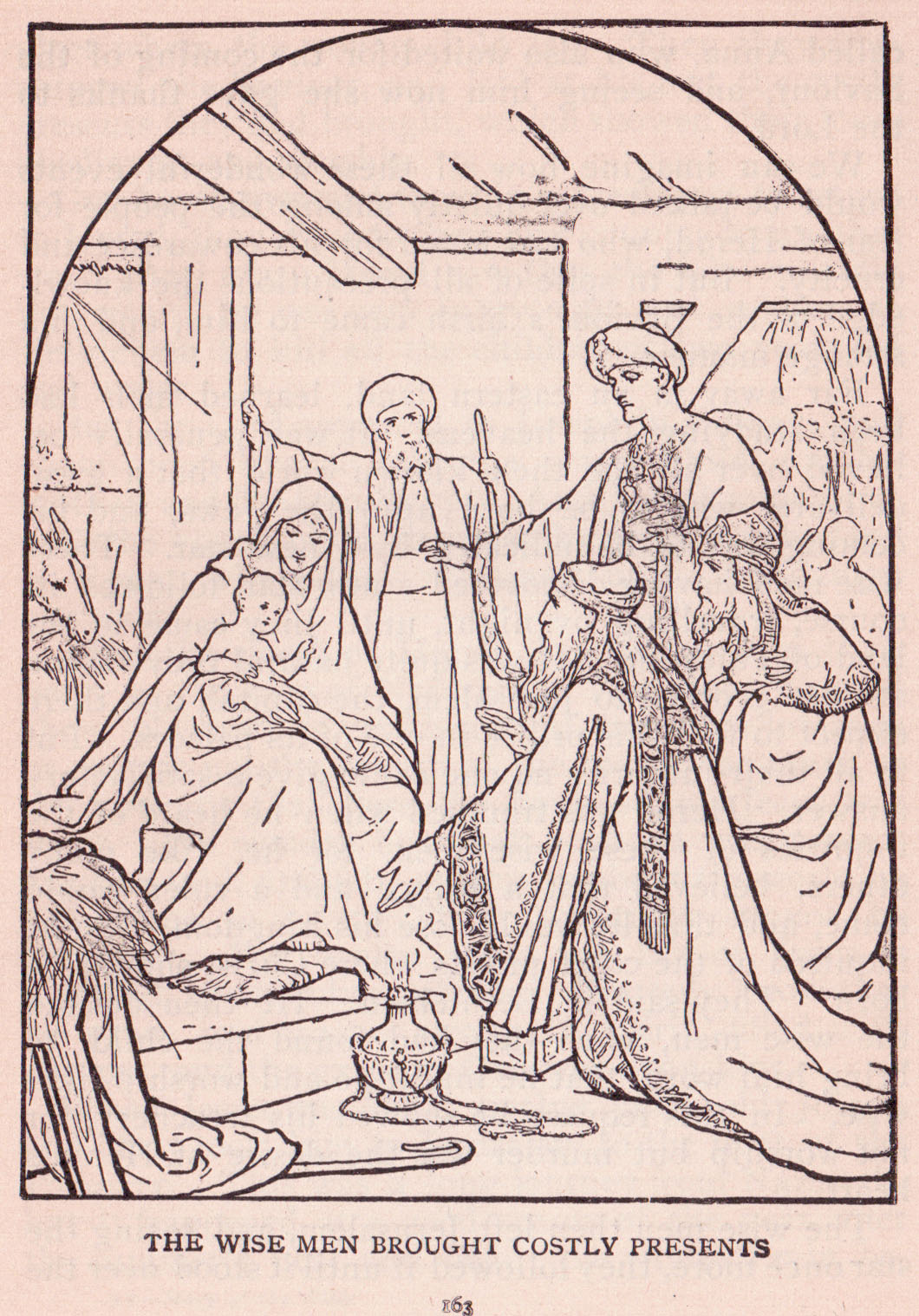 From the public domain book "A Child;s Story of the Bible", this copyright free image is on page 163. The illustration is titled ""The Wise Men Brought Costly Presents". The original copyright of the book was 1899 by Henry Altemus. Flickr data on 2011-08-17: Tags: copyright free, creative commons, flickr, free, freebie, illustrated, illustration, pre-1923 License: CC BY 2.0 User: perpetualplum Sue Clark